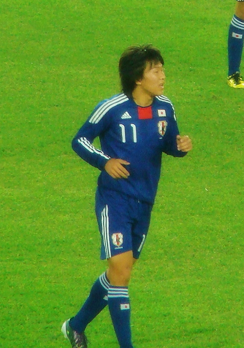 Kensuke Nagai played in the 2010 Asian Games.